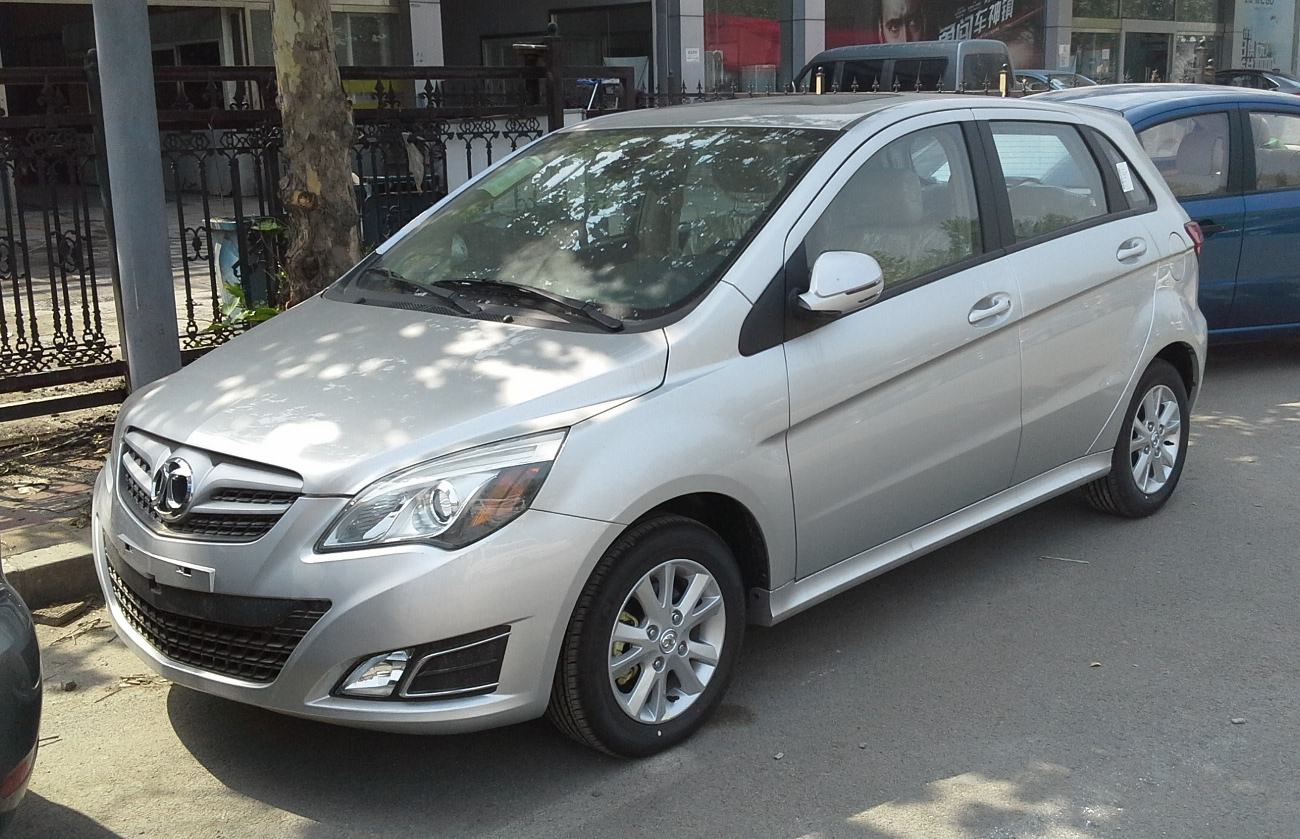 Beijing Auto E-Series hatch photographed in Beijing, China.